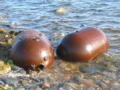 Naval mines on the Estonian island of Naissaar.